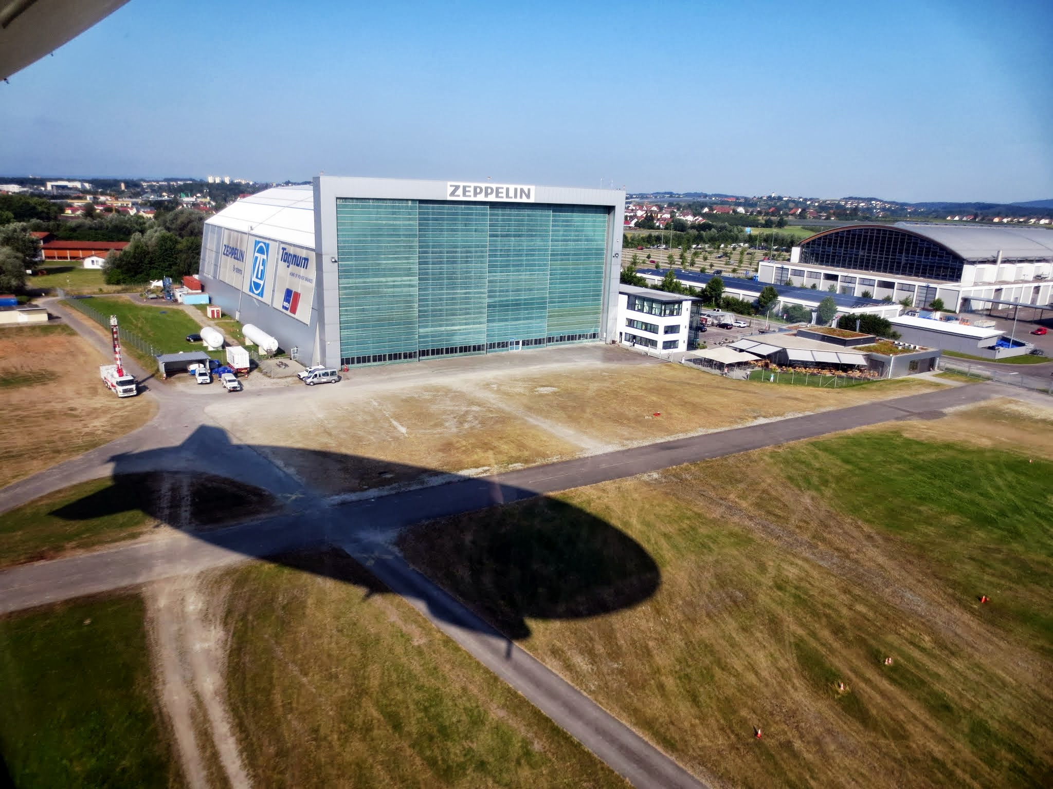 Zeppelin NT shadow and its hangar